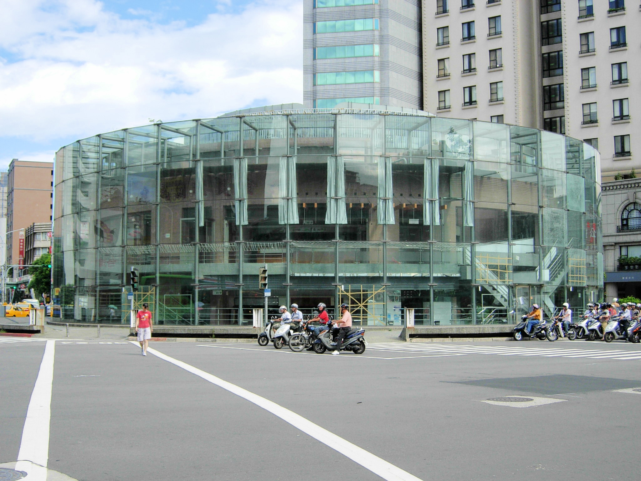 Rebuilt structure of Chien Cheng Rotary（Abandoned; Datong District, Taipei City, Taiwan）中文（台灣）: 改建工事中的建成圓環（位於臺灣臺北市大同區）。Bân-lâm-gú: Kái-kiàn tān thîng-kang tiong ê Kiàn-sîng Înn-khuân (uī-î Tâi-uân Tâi-pak-tshī Tāi-tông-khu).